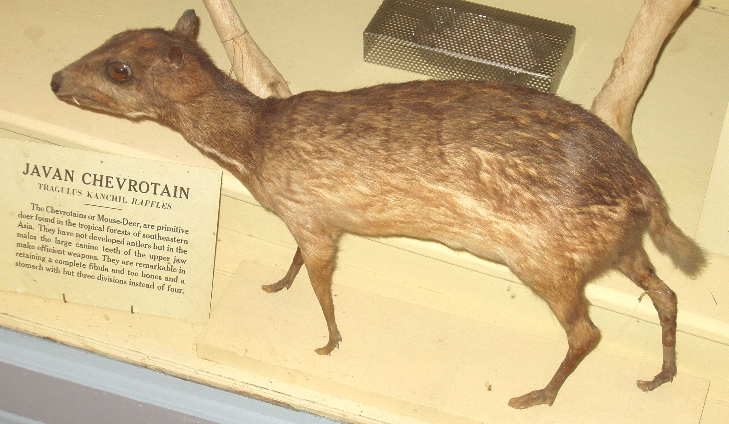 This is a photograph of a Javan Chevrotain (Tragulus kanchil). This photograph is from the Harvard Museum of Natural History / Peabody Museum. Although no copyright has been asserted for the subject matter or this image, the museum's photography rule is as follows: "No commercial photography or video cameras permitted in the museum without written permission." [Museum pamphlet, May 2007.]